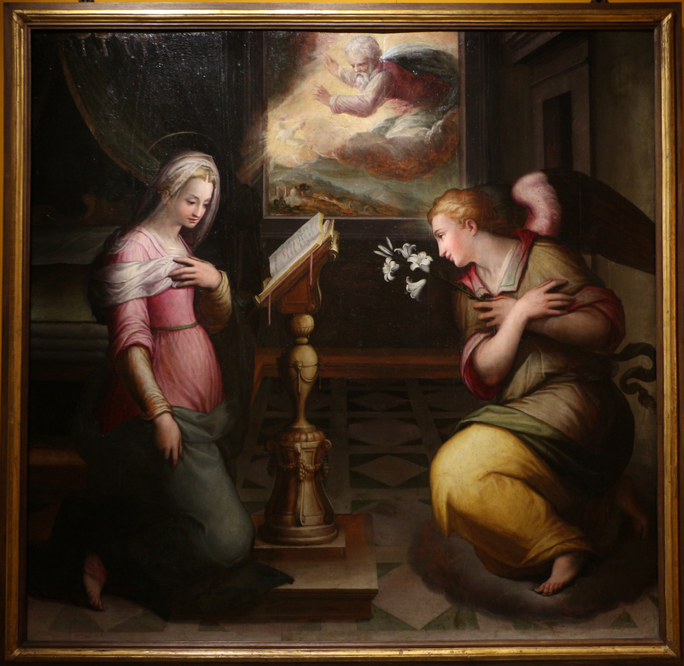 Exhibition in Montecatini Terme